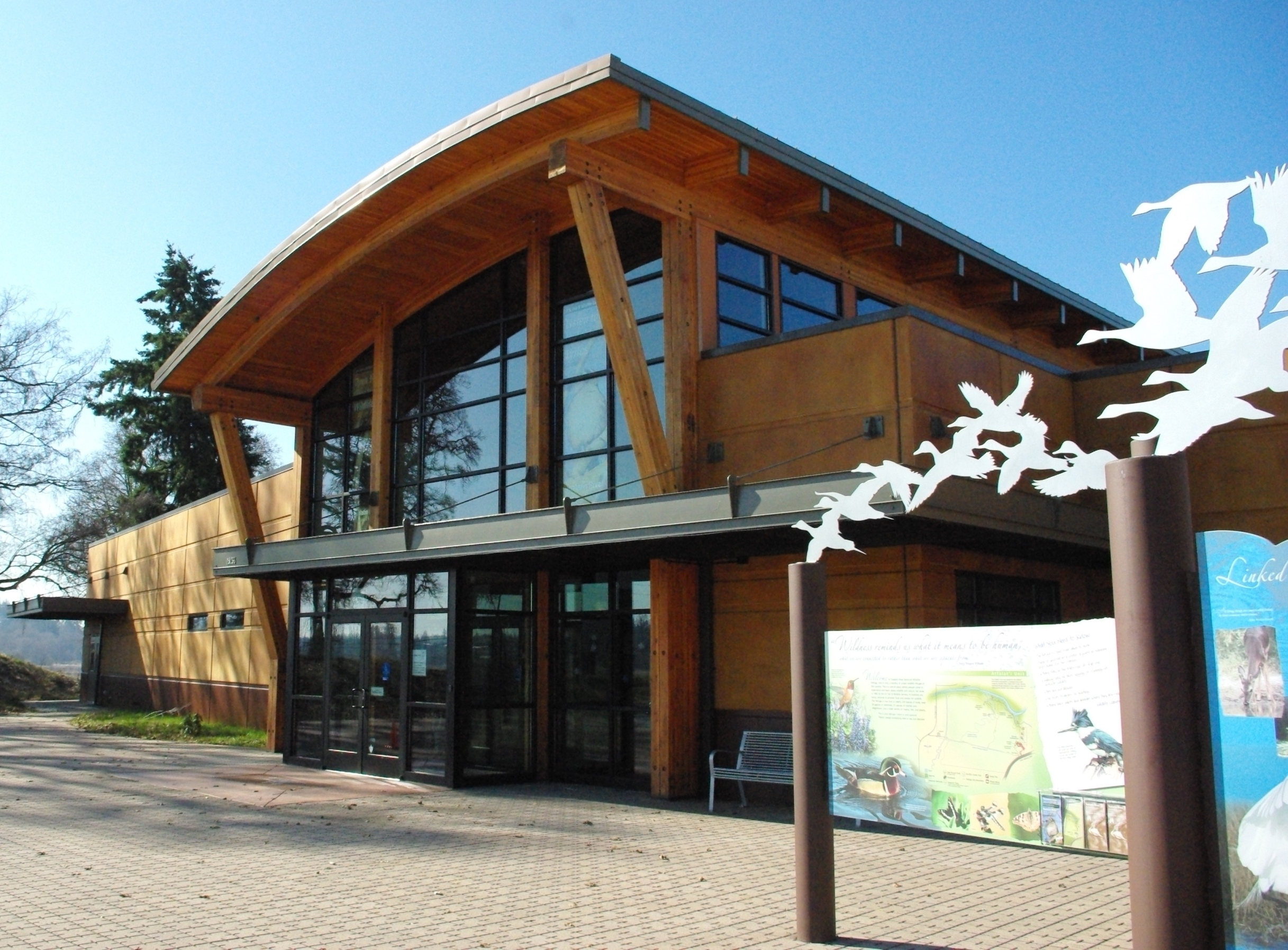 The Tualatin River National Wildlife Refuge near Sherwood, Oregon, USA.